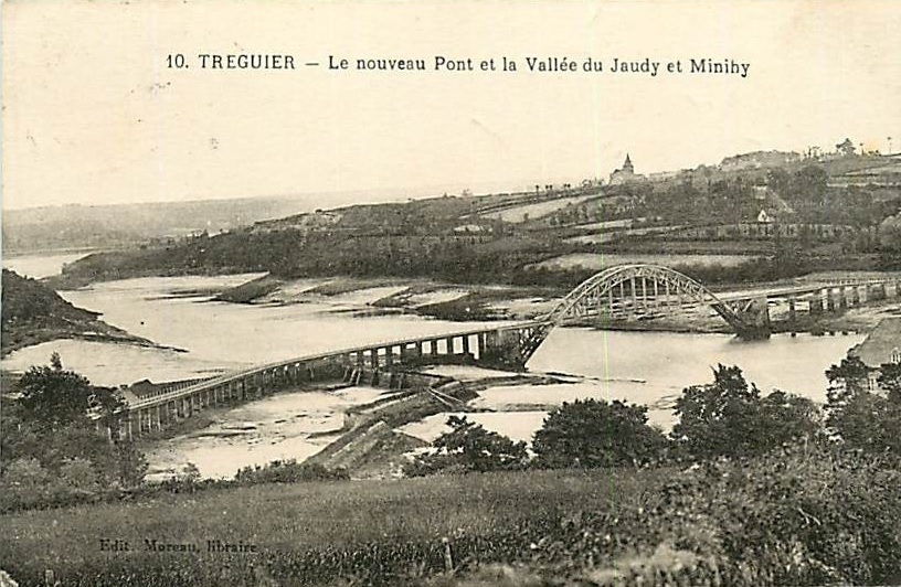 Old postcard, Moreau edition, #10: "Tréguier - The new bridge & the Jaudy's valley & Minihy"